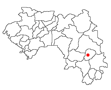 Kérouané, Guinea Location Map; created with the GIMP. Made by User:Acntx.